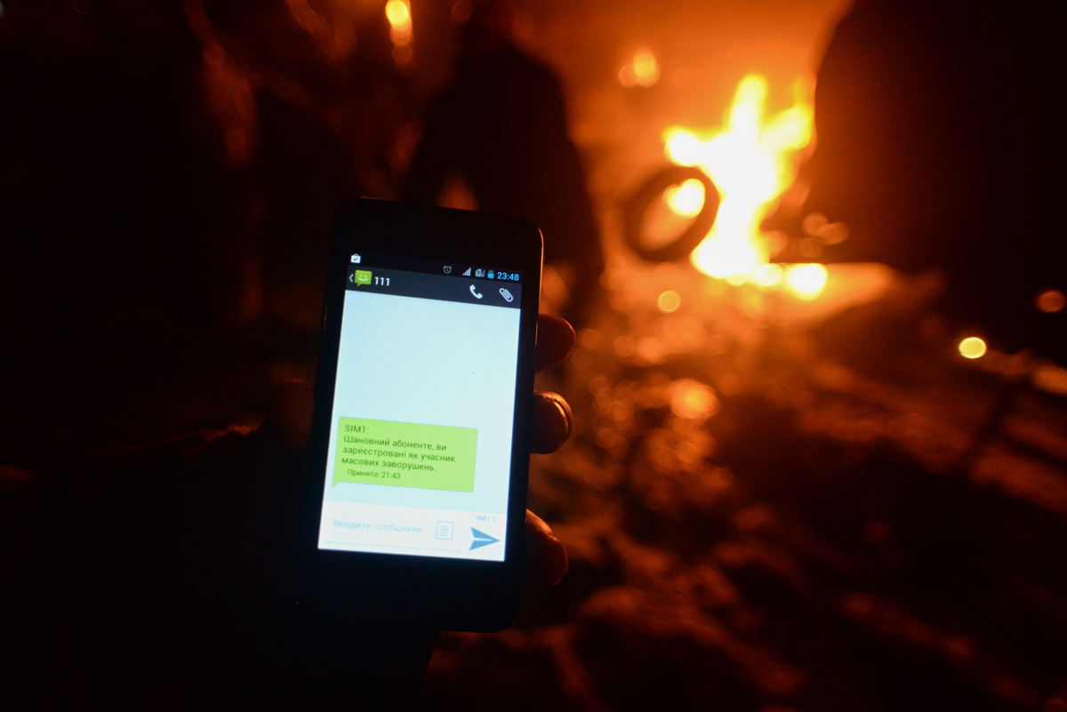 Anonymus text message received by many participants of clashes at Dynamivska str.- Dear subscriber, you are under arrest as a partisipant of mss protests.- Euromaidan Protests